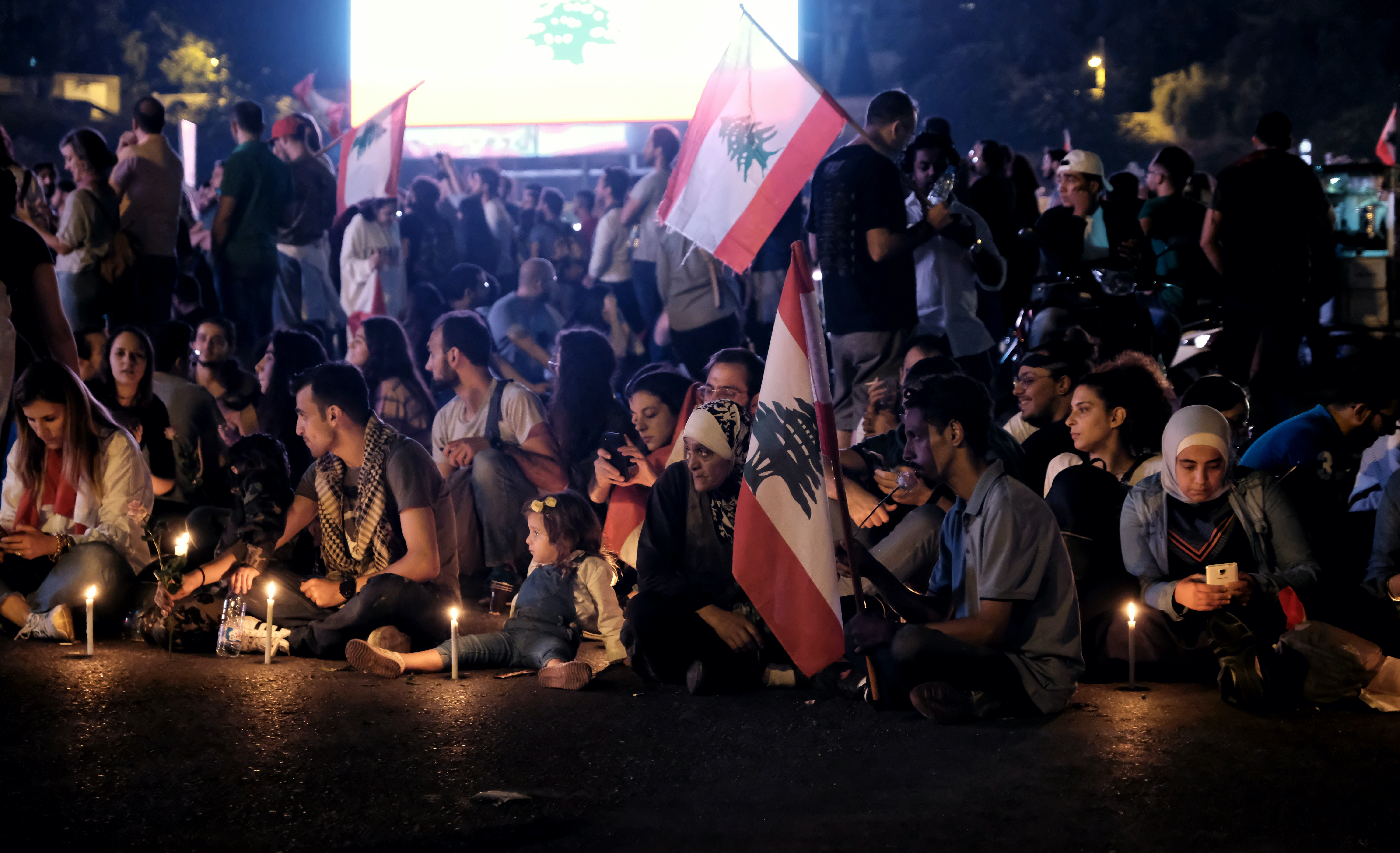 Protesters blocking access to the Ring bridge in Beirut, Lebanon. October 26, 2019.